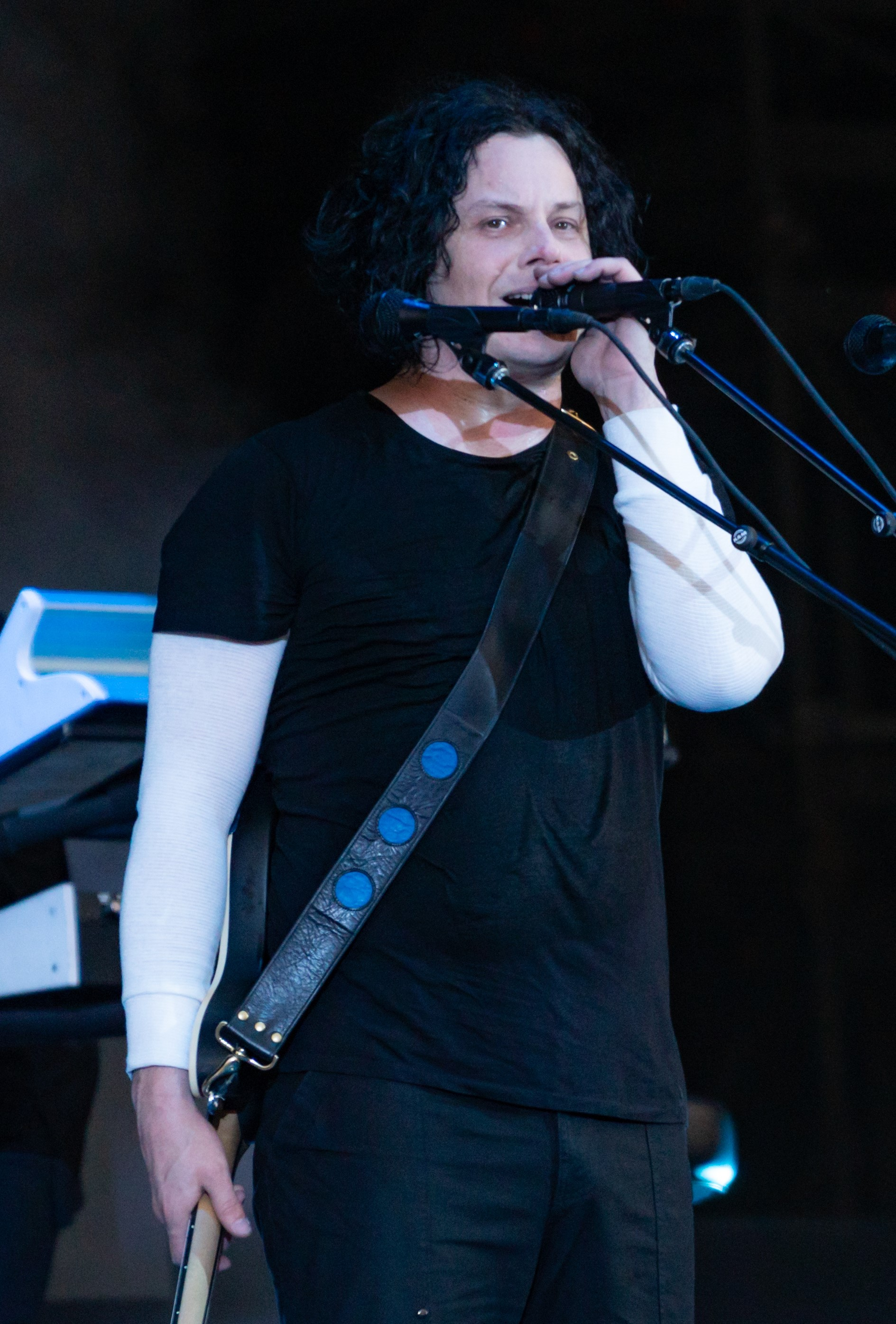 Jack White performing alongside his band at the 2018 Rock Werchter festival in Werchter, Belgium.